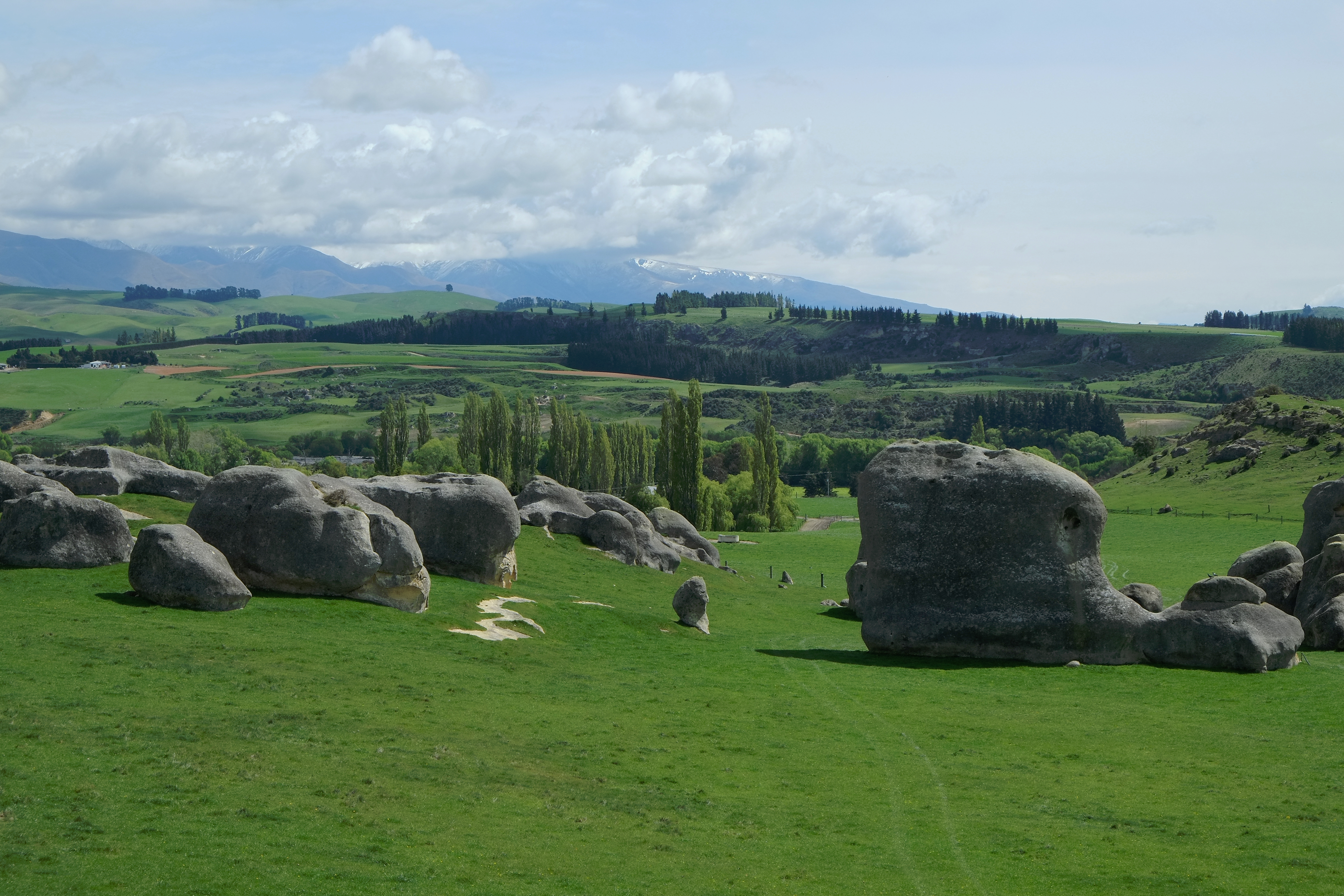 Elephant Rocks towards Maerewhenua Valley